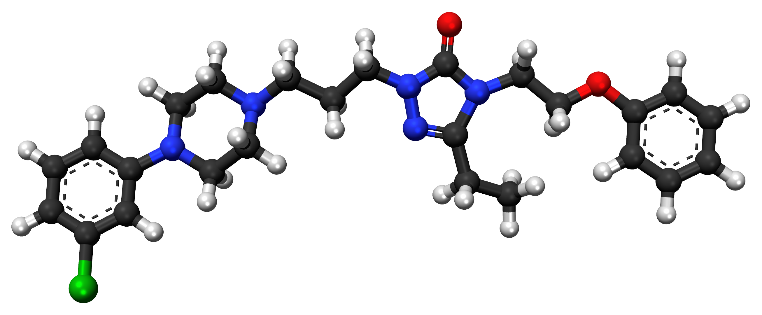 Ball-and-stick model of nefazodone—a antidepressant belonging to the group of serotonin antagonists and reuptake inhibitors (SARI). Created using Accelrys DS Visualizer 4.1 and Adobe Photoshop CC 2014. Colors used: Carbon, C: dark grey Hydrogen, H: light grey Nitrogen, N: blue Oxygen, O: red Chlorine, Cl: green This chemical image was created with Discovery Studio Visualizer. This raster graphics image was created with Adobe Photoshop CS